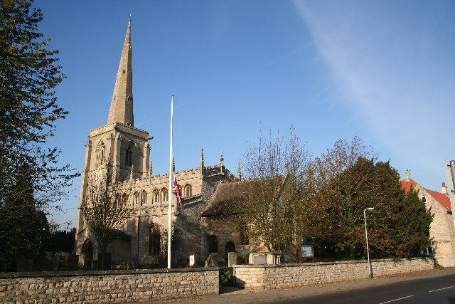 St Martin's parish church, Ancaster, Lincolnshire: view from the southeast, showing the 14th-century west tower and spire